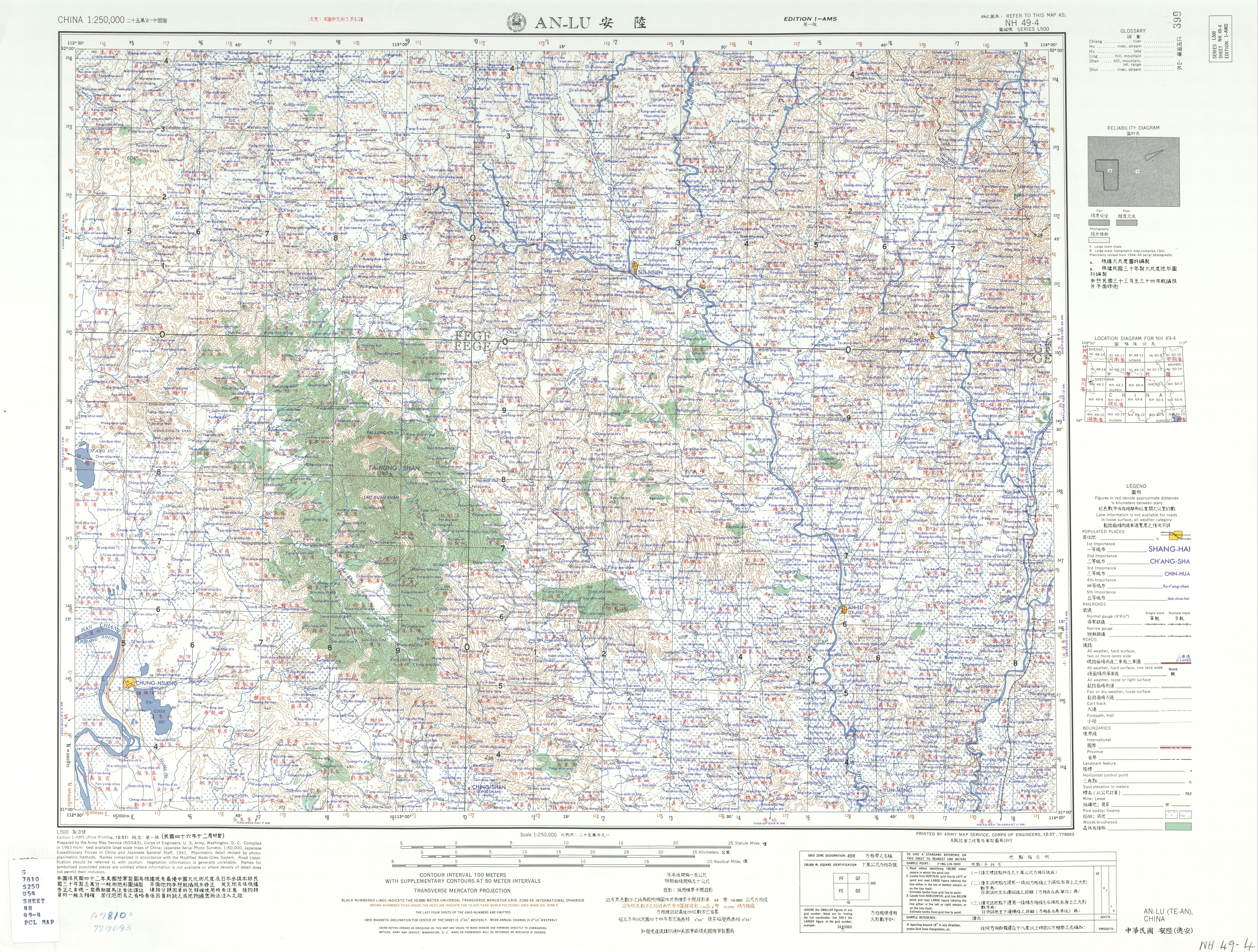 China AMS Topographic Maps